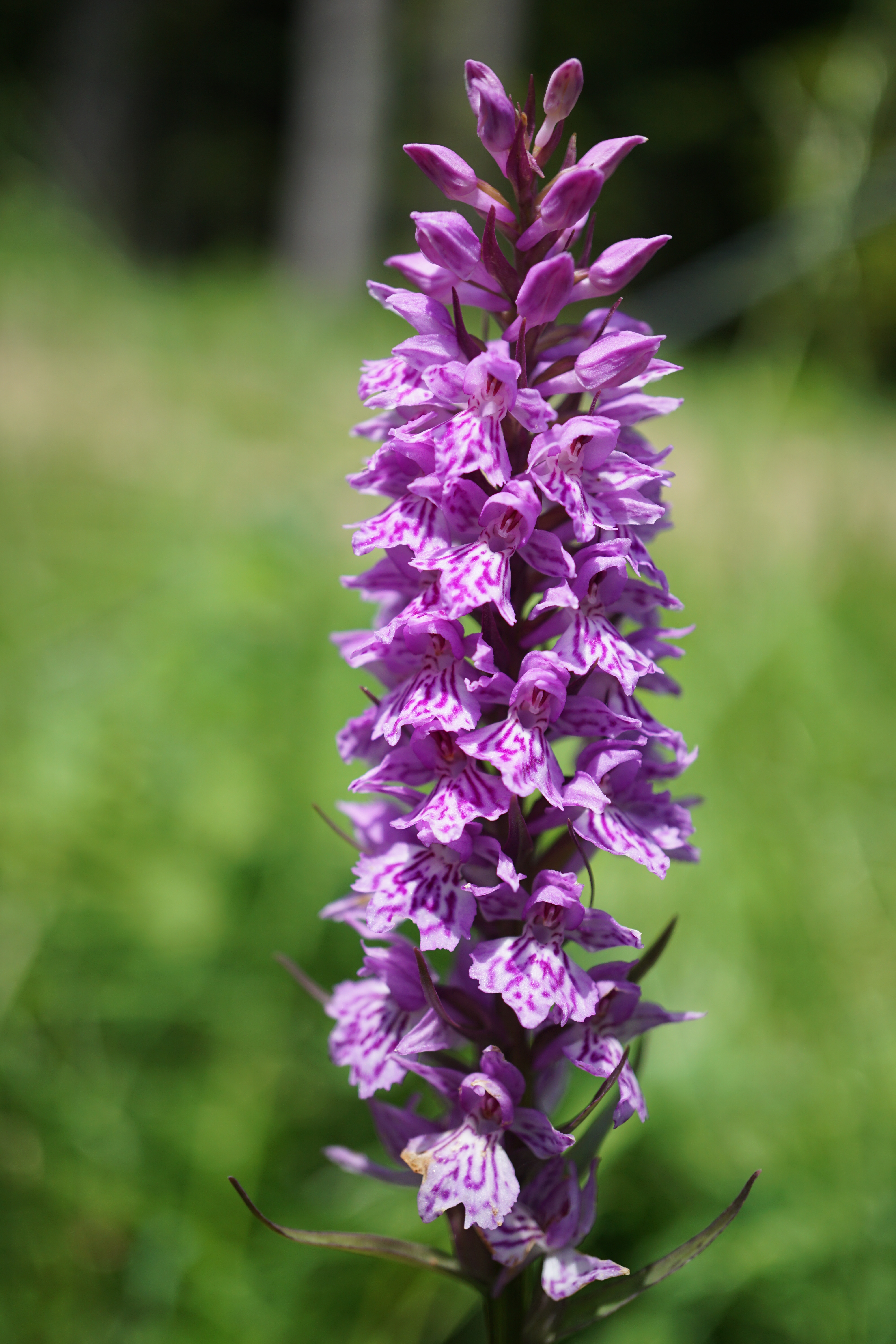 Fuchs’ Knabenkraut common spotted orchid